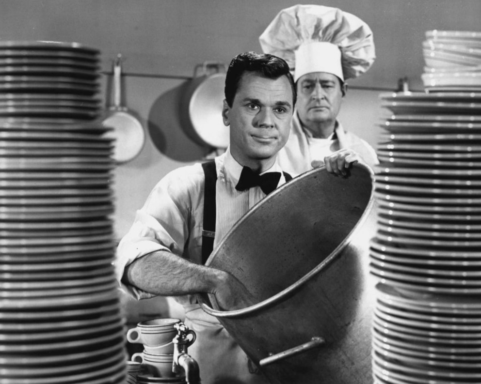 Photo of Jackie Cooper as Socrates (Sock) Miller from the television program The People's Choice. In this episode, Sock's restaurant tab is more than what's in his wallet, so he ends up washing dishes to pay the bill.